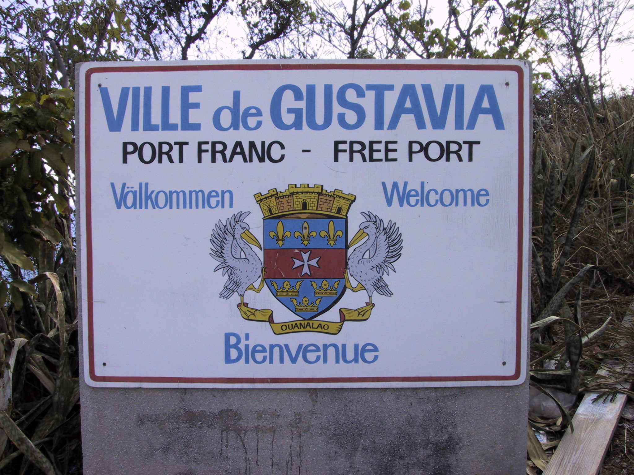 Gustavia, Saint-Barthélemy.